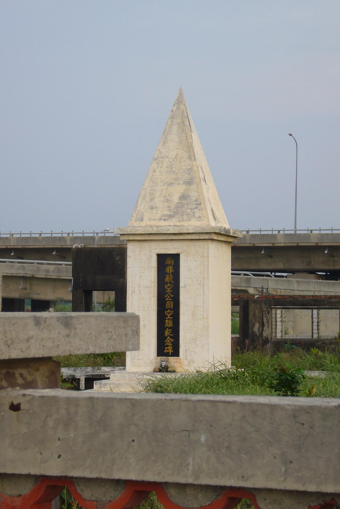 The cenotaph of South Africa Airlines 295 accident. It locate near Taiwan Taoyuan International Airport in Taiwan. 南非航空295號班機空難的紀念碑. 位於台灣桃園國際機場附近. 南アフリカ航空295便墜落事故の慰霊碑. 台湾桃園国際空港. photo date: Aug. 31st 2006